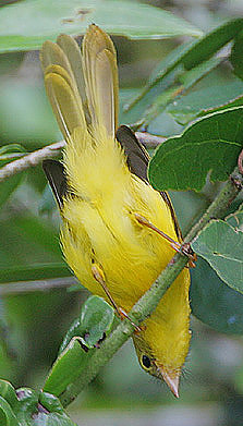 A ventral view. Image taken in Brachystegia woodland within Arabuko-Sokoke Forest in coastal Kenya.